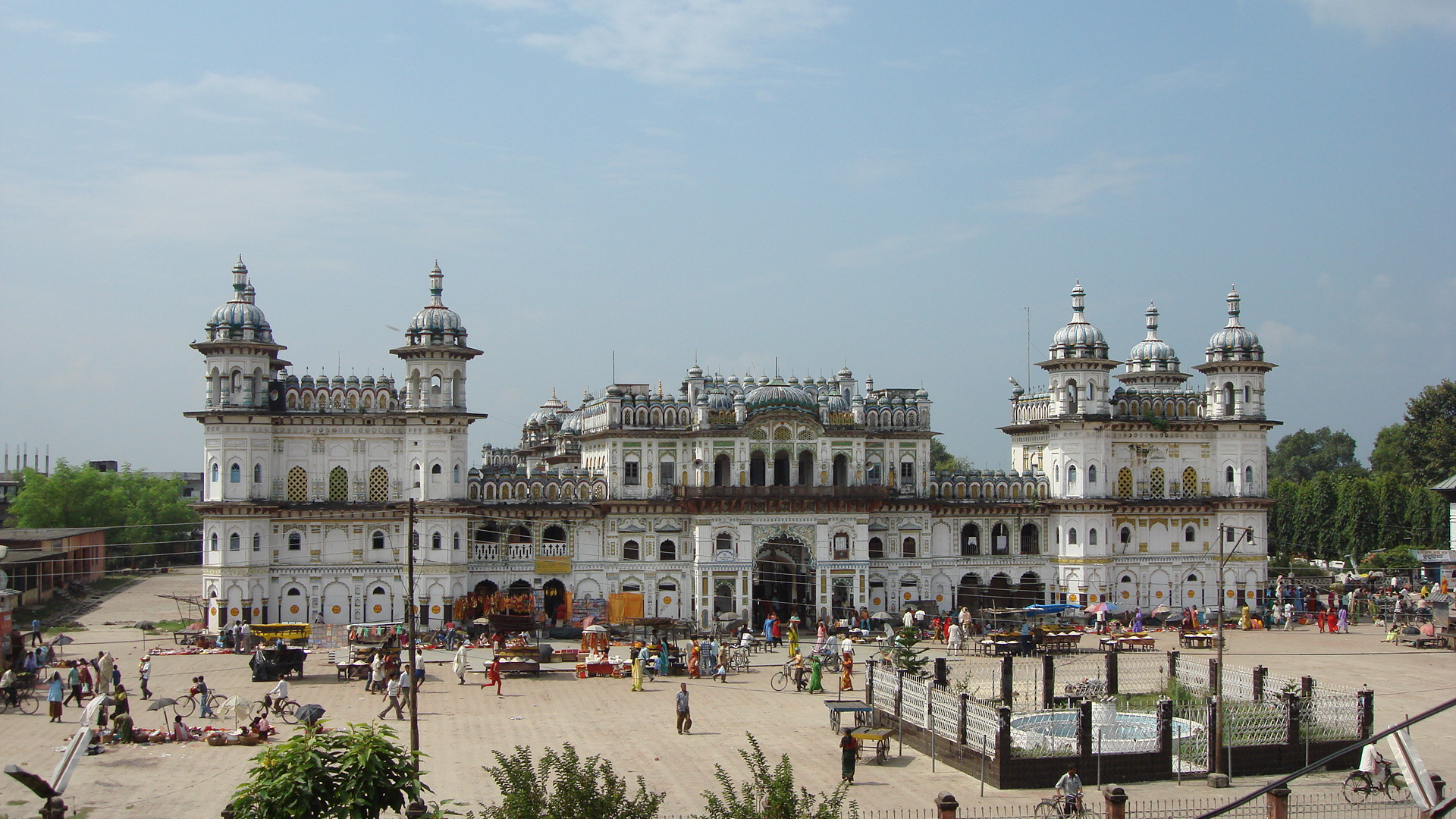 Photograph of Janki Mandir of Janakpur Dham(Nepal). This photo was taken from the roof of Shah Glass house building by Abhishek Dutta . I took this photograph during my Dashami trip to Janakpur (my birth place) on 14 October 2007.